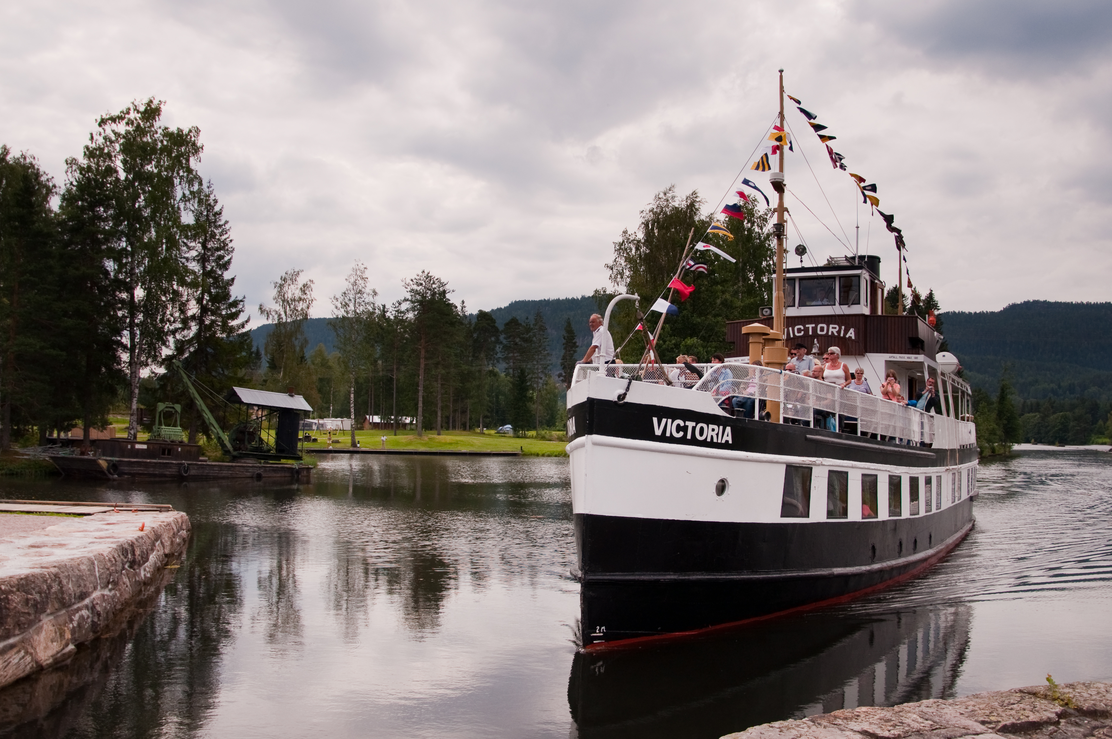 MS Victoria arrives at Lunde, one of the stops along the Telemark Canal